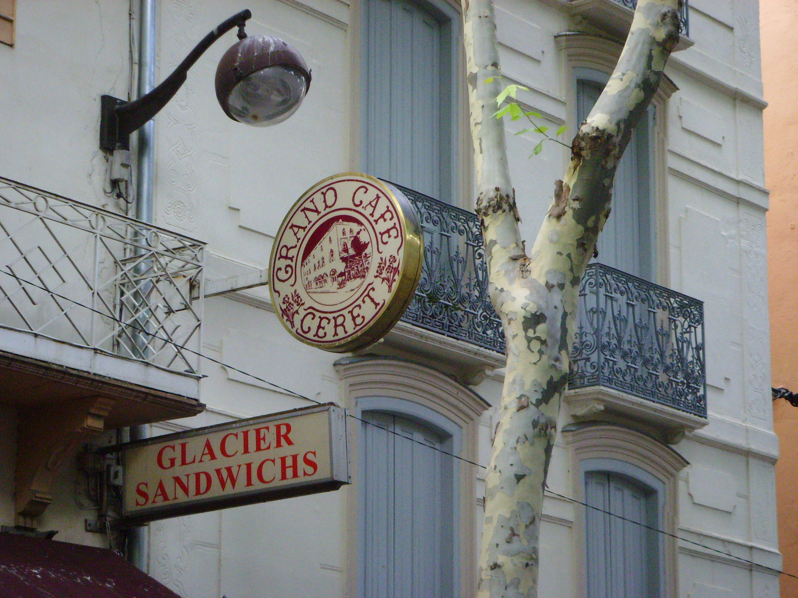 Céret, France, Grand Café, former meeting place of important artists author: Gerbil, summer 2006